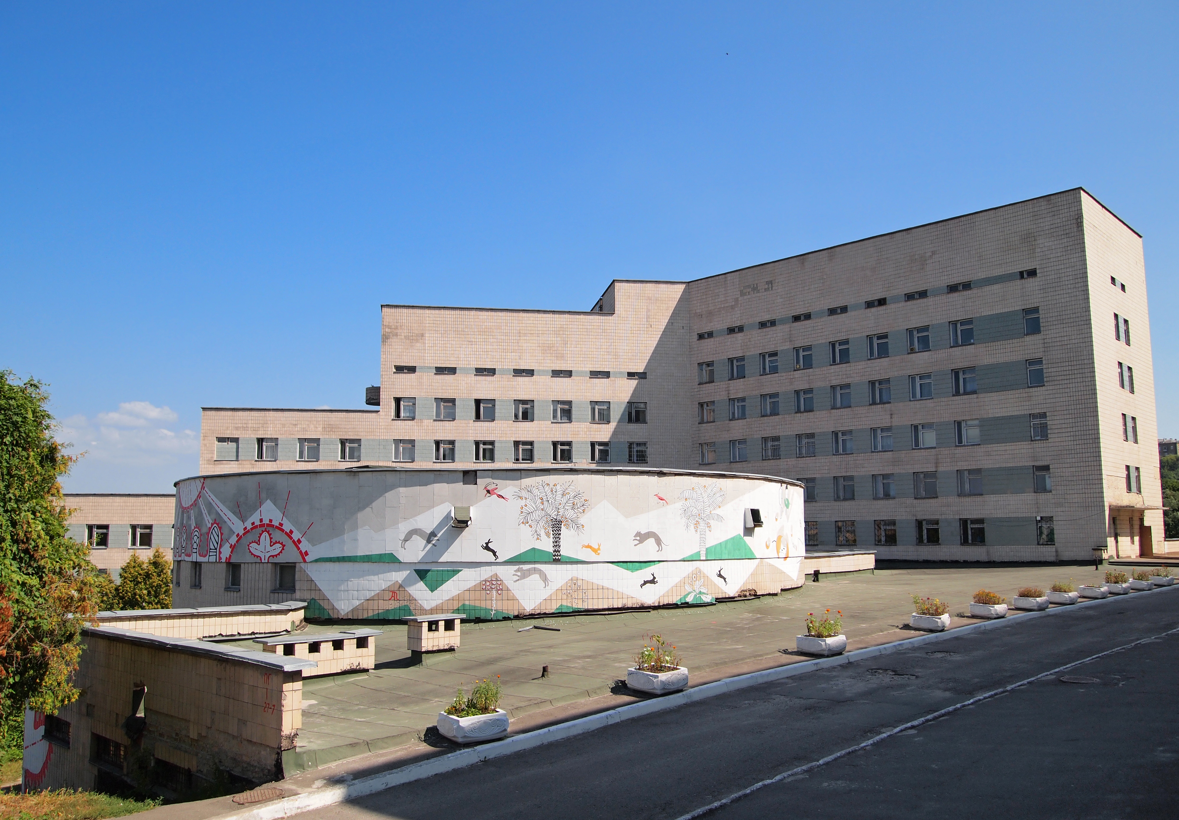 Pavlov hospital in Kiev. This photograph was taken with an Olympus E-PL1